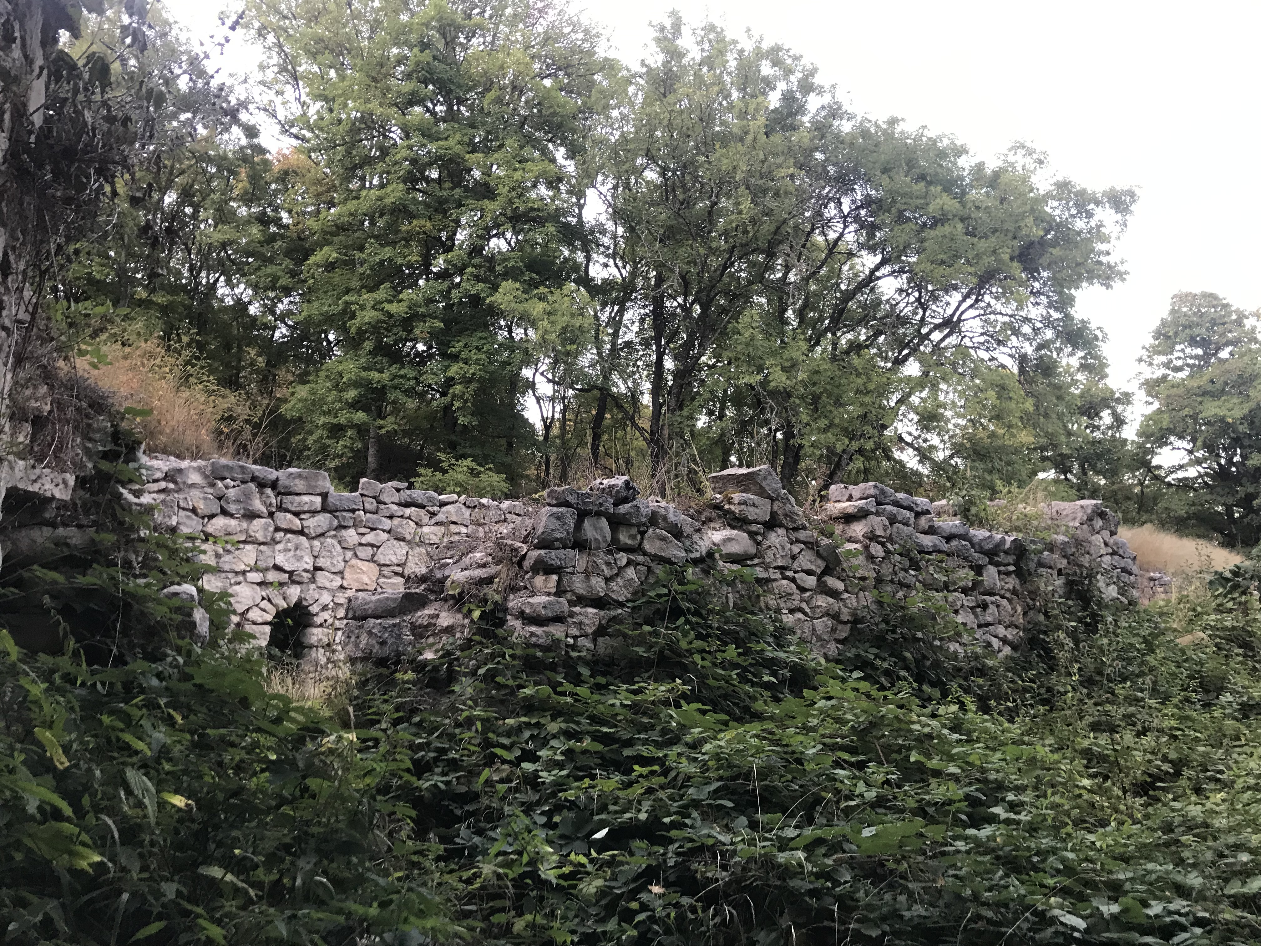 Բովուրխանի վանք 17-18-րդ դար